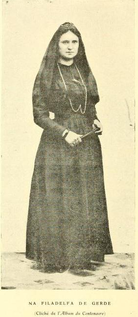 A picture of the Occitan felibressa Filadelfa de Gèrda (taken from the Revue Catalane n° 14 (1920))